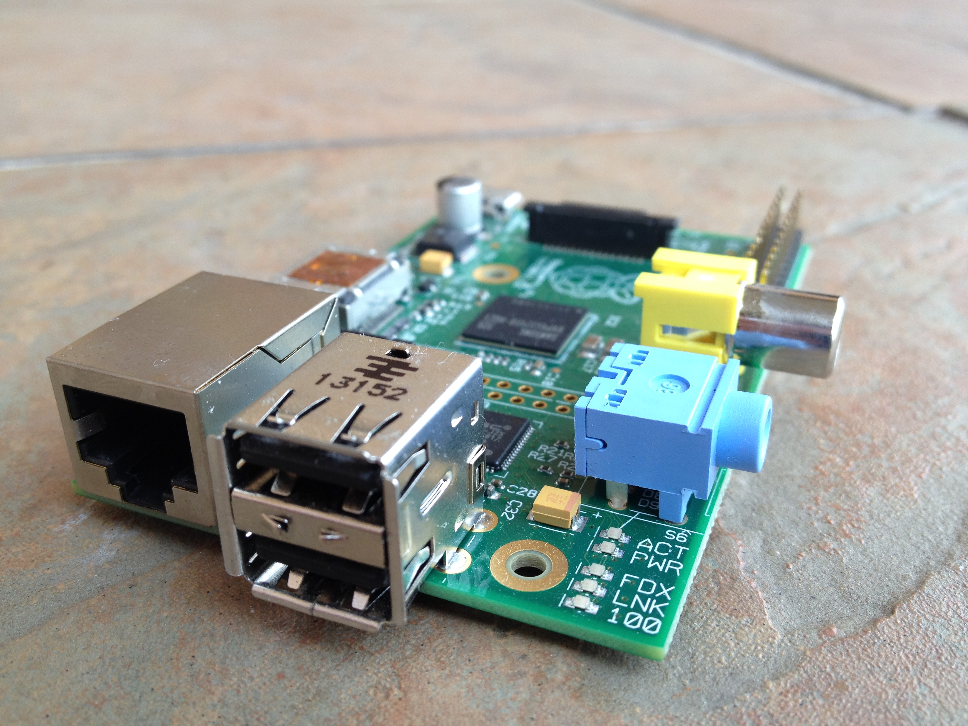 The raspberry pi model B.